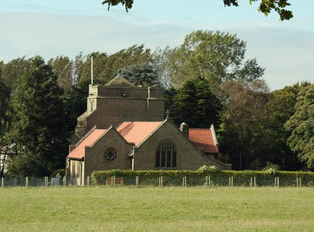 All Saints' Church, Barnacre On the map the church appears to straddle the gridline, as does the photographer's position.